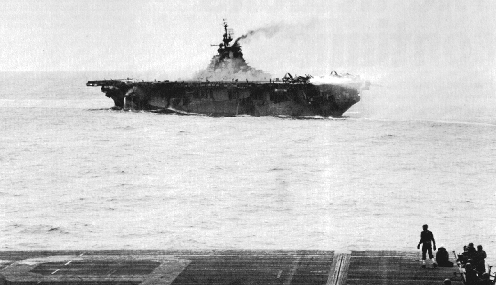 The U.S. Navy aircraft carrier USS Hancock (CV-19) smoking and turning to port after being struck by a kamikaze, 7 April 1945.